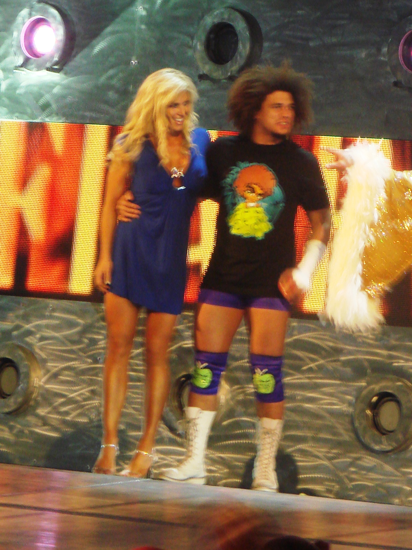 Torrie Wilson and Carlito at WWE Raw. Nashville Arena, Nashville, TN, April 30en:2007. Taken by me.